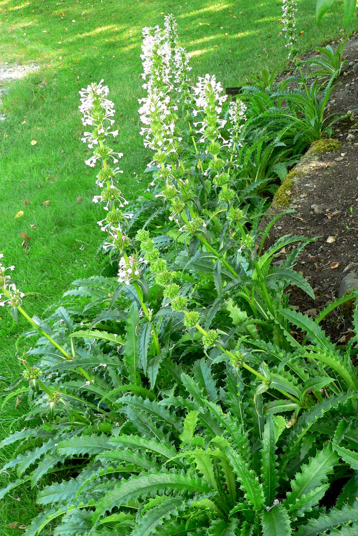 Photo of Morina longifolia at VanDusen Botanical Garden